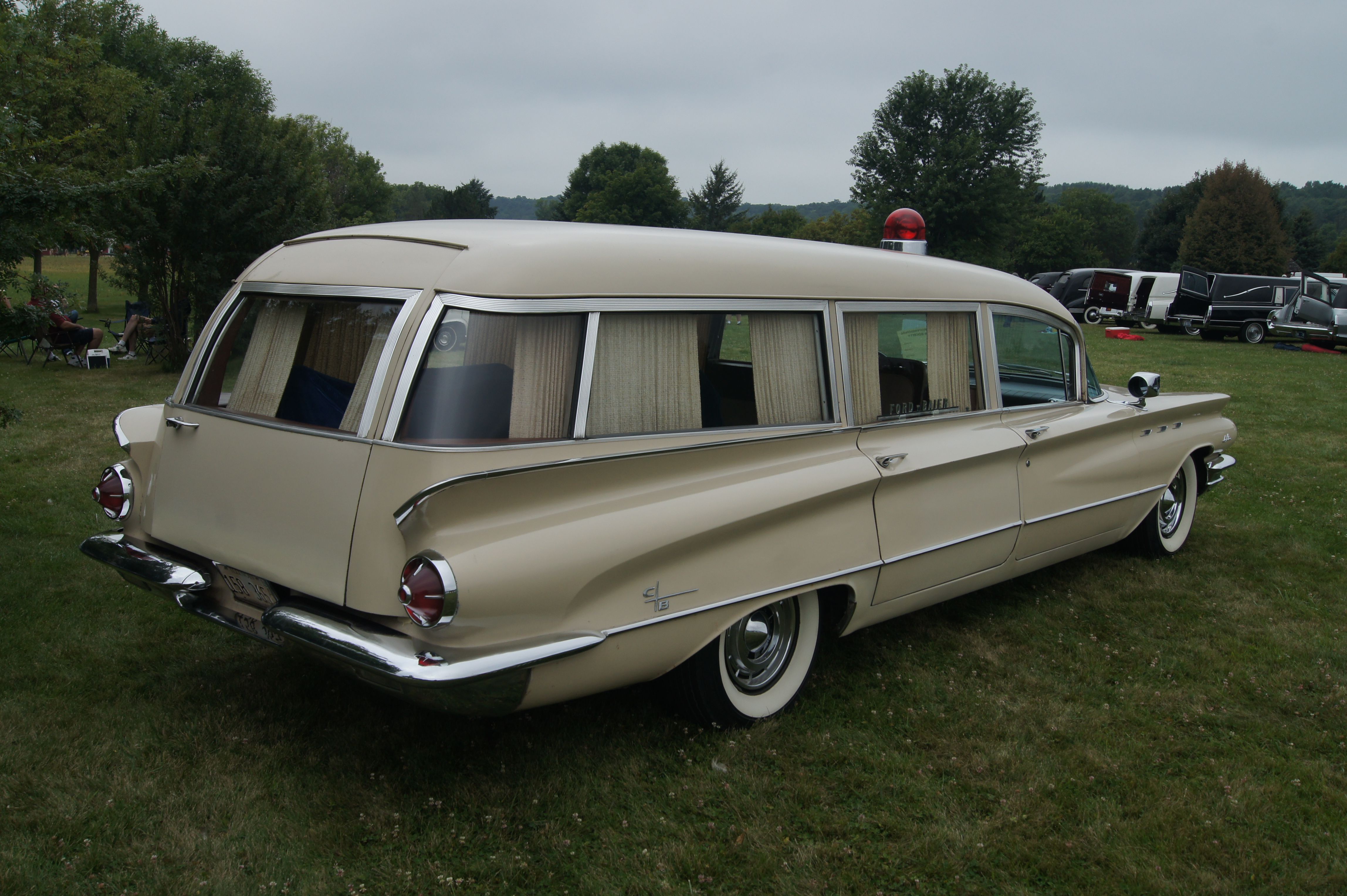 Professional Car Society International Meet 2014 Respond to Rochester Host: Northland Chapter (Celebrating Northland's 25th Anniversary) PCS Concours D'Elagance Show & Shine August 16, 2014 Olmstead County History Center Rochester, Minnesota You can see more car pictures by clicking on the link below